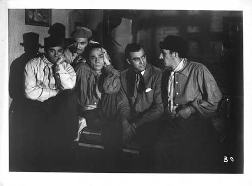 Los Cinco Grandes del Buen Humor- Grupo humorístico